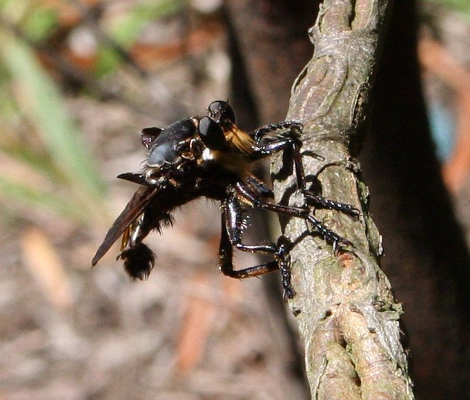 Seen in Bardwell Creek, Bexley. 100m west of Bexley Road. Identified as Blepharotes splendidissimus by David McAlpine, Research Associate, Australian Museum (thanks!)